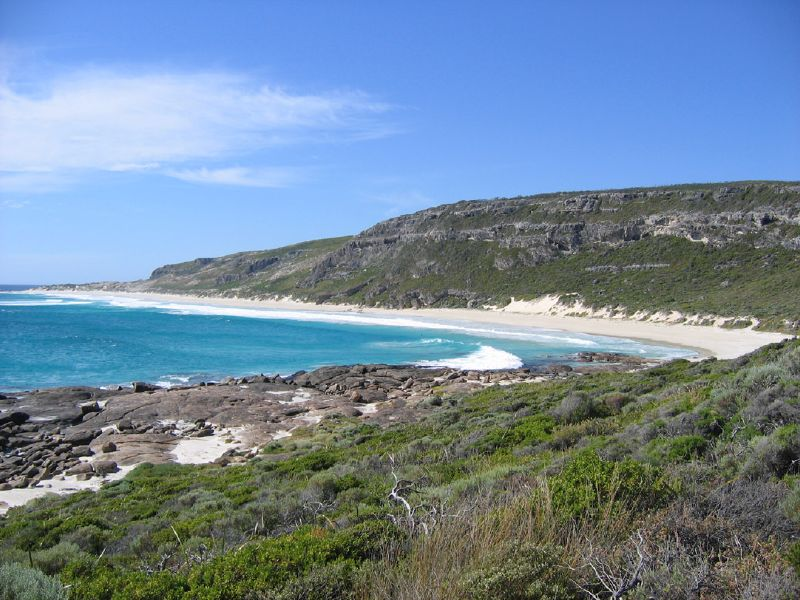 A spot in the Leeuwin-Naturaliste National Park. The park stretches 120 kilometres from Cape Leeuwin to Cape Naturaliste.